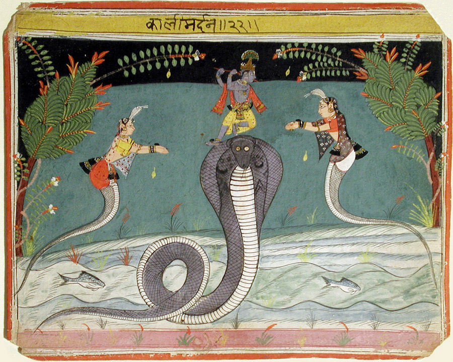 Series Title: The Ancient Text of the Lord Suite Name: Bhagavata Purana Creation Date: ca. 1645 Display Dimensions: 6 11/16 in. x 8 1/16 in. (17 cm x 20.5 cm) Credit Line: Edwin Binney 3rd Collection Accession Number: 1990.952 Collection: The San Diego Museum of Art